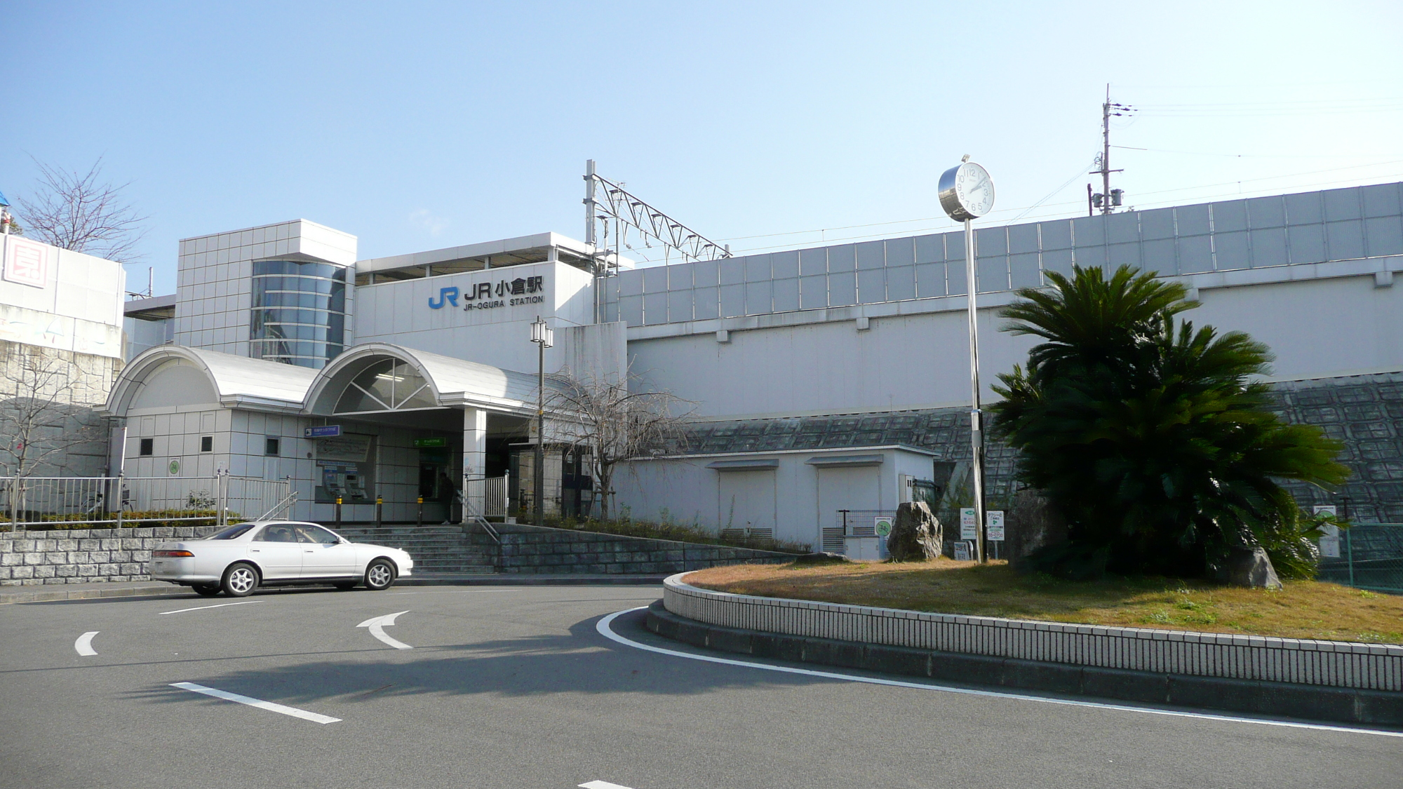 West Japan Railway,Nara Line,JR-Ogura Station north entrance. / 奈良線JR小倉駅北口